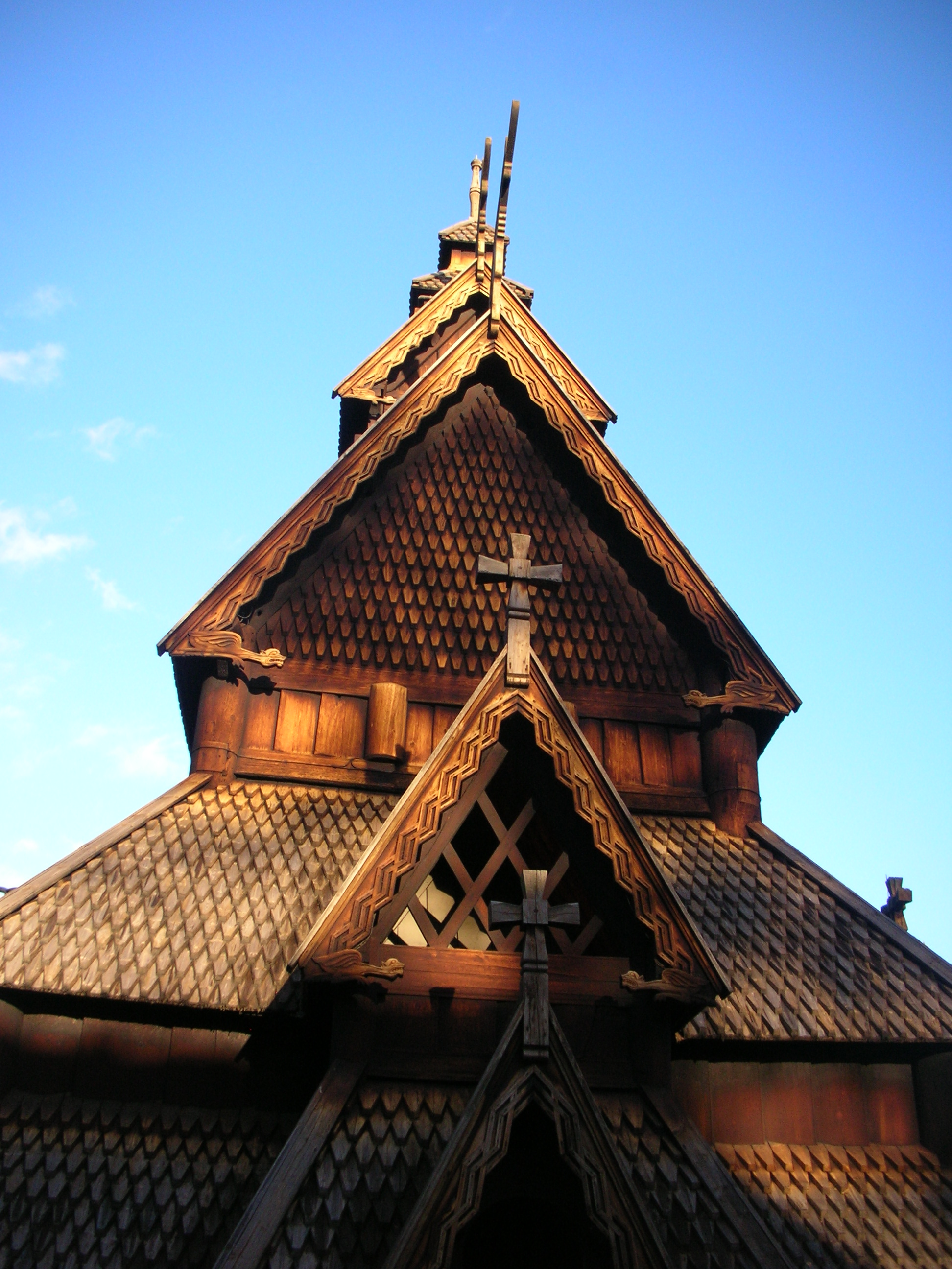 Church of Gol at Norsk Folkemuseum